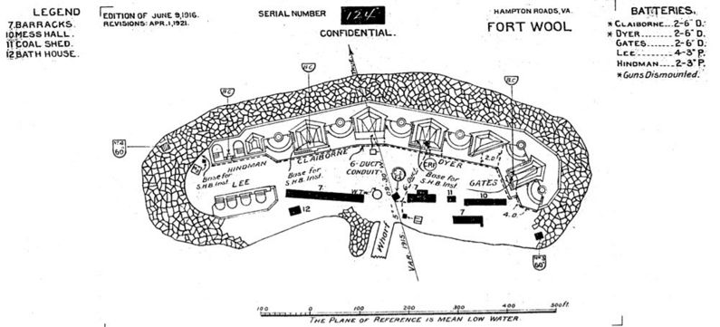 1921 plan for Fort Wool, Virginia